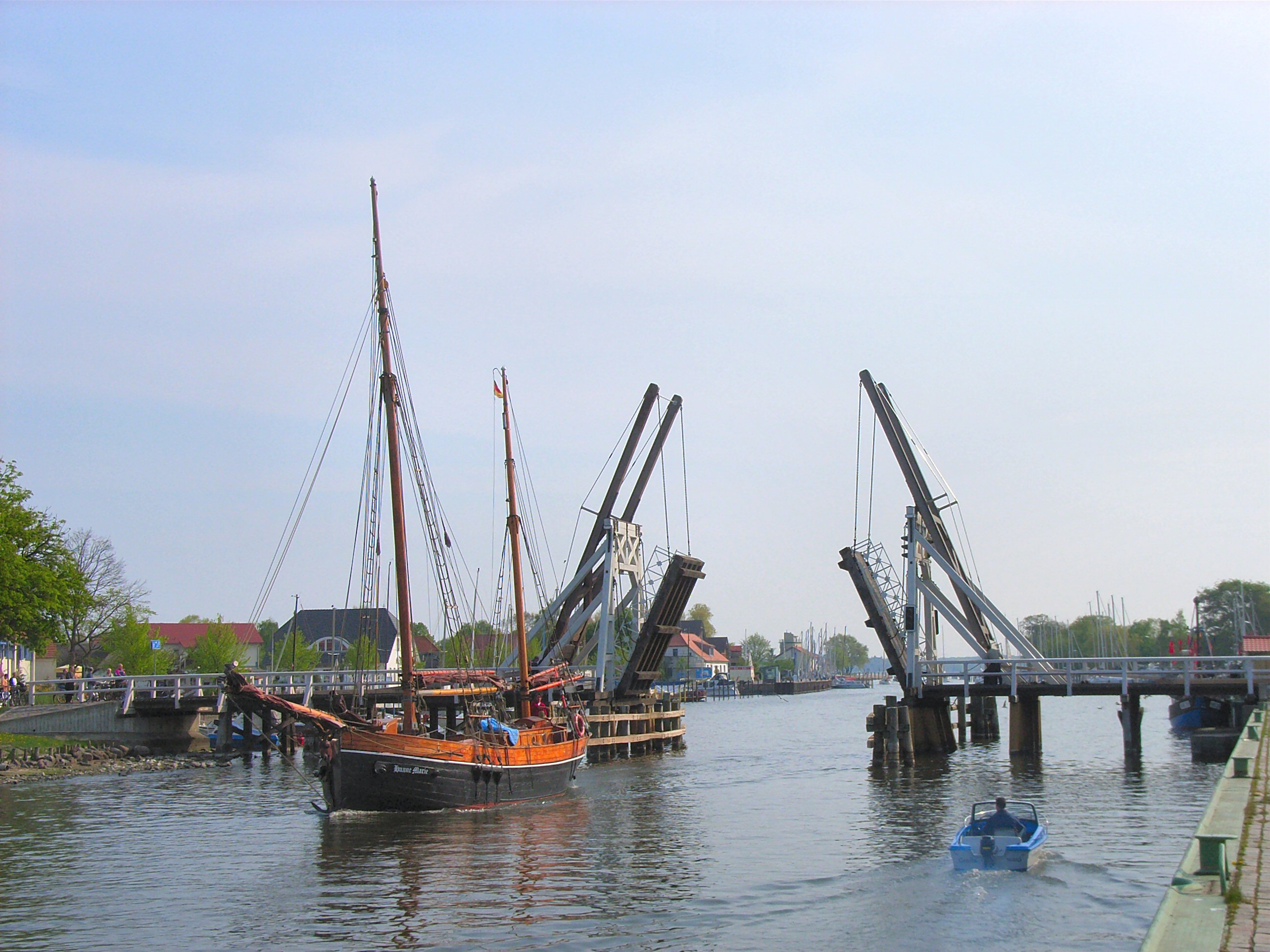 old sailing boat at the drawbridge of Greifswald-Wieck